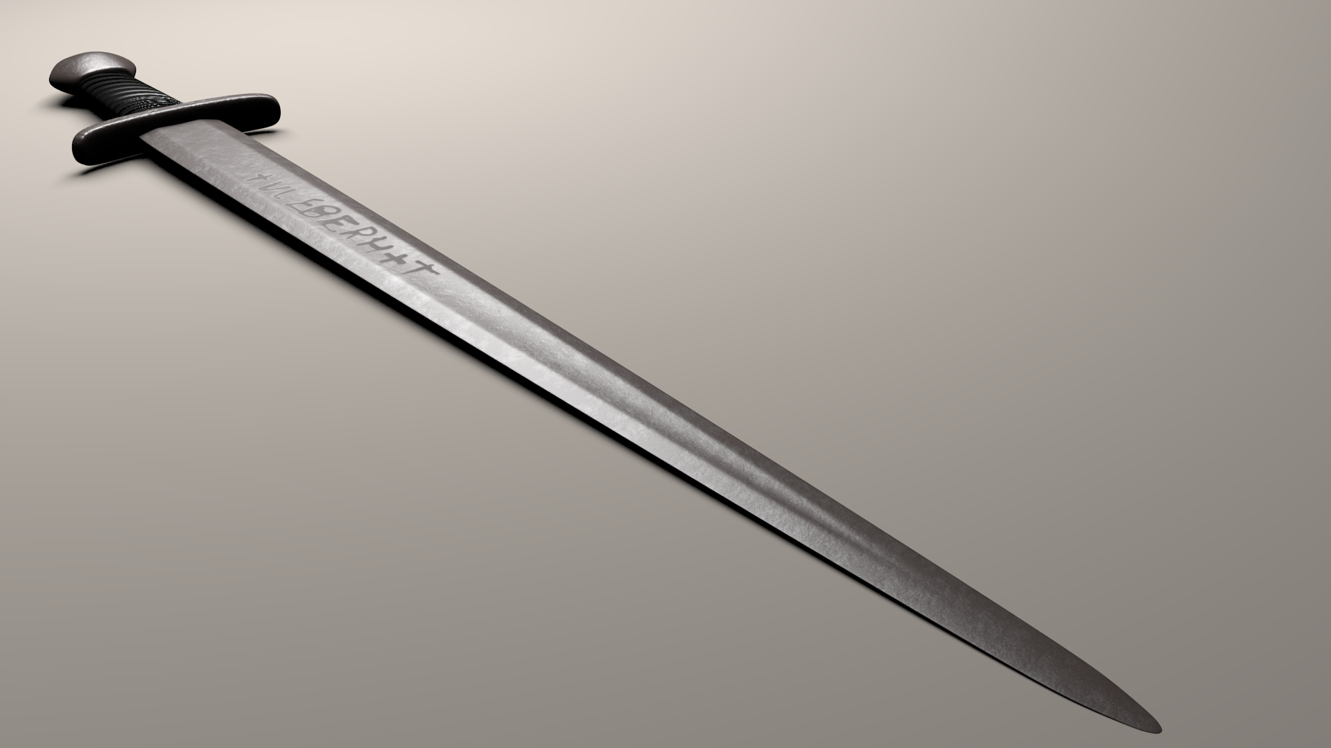 digital model of an Ulfberht sword